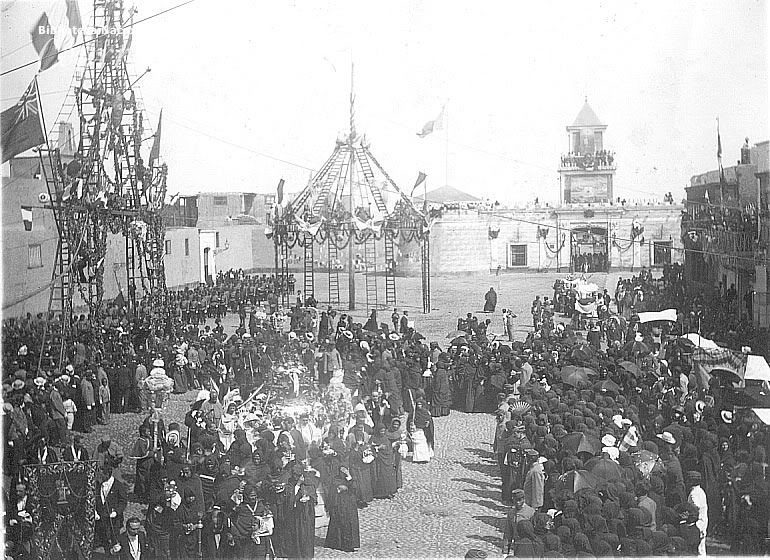 Fort Saint Catherine in Lima - Perú